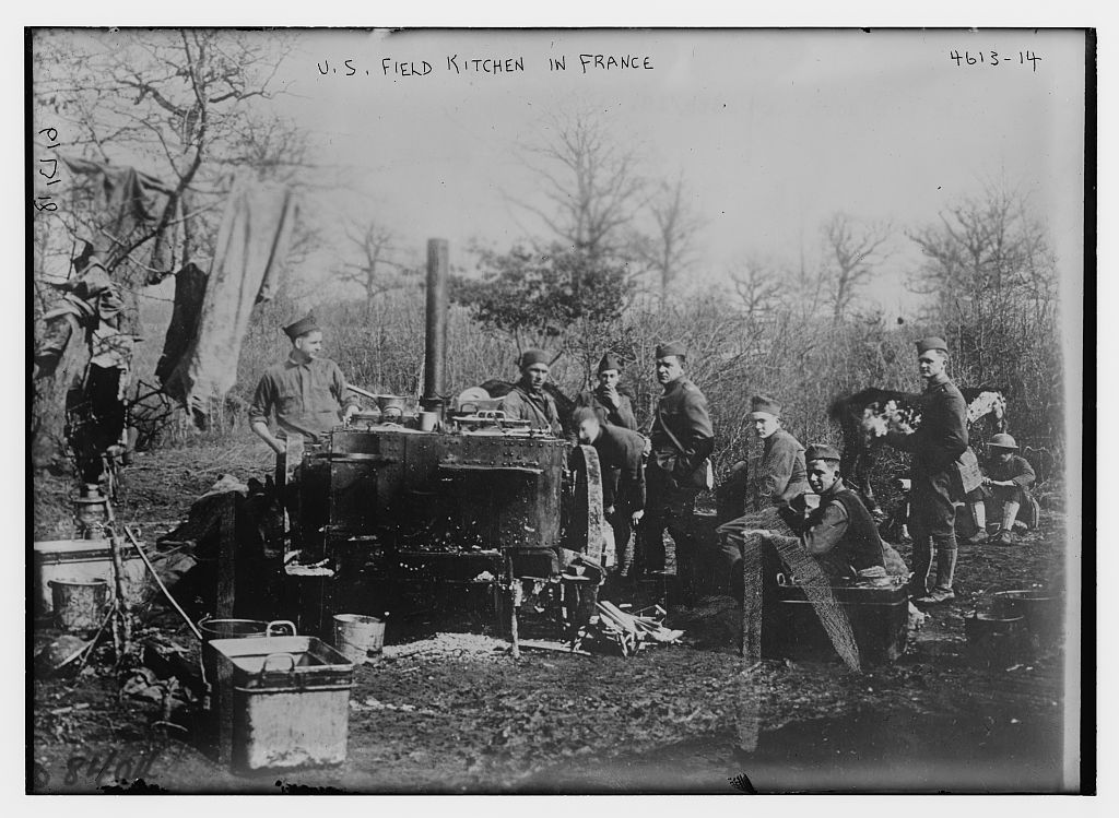 Bain News Service,, publisher. U.S. field kitchen in France [between ca. 1915 and ca. 1920] 1 negative : glass ; 5 x 7 in. or smaller. Notes: Title from unverified data provided by the Bain News Service on the negatives or caption cards. Forms part of: George Grantham Bain Collection (Library of Congress). Subjects: France Format: Glass negatives. Repository: Library of Congress, Prints and Photographs Division, Washington, D.C. 20540 USA, General information about the Bain Collection is available at Higher resolution image is available (Persistent URL): Call Number: LC-B2- 4613-14